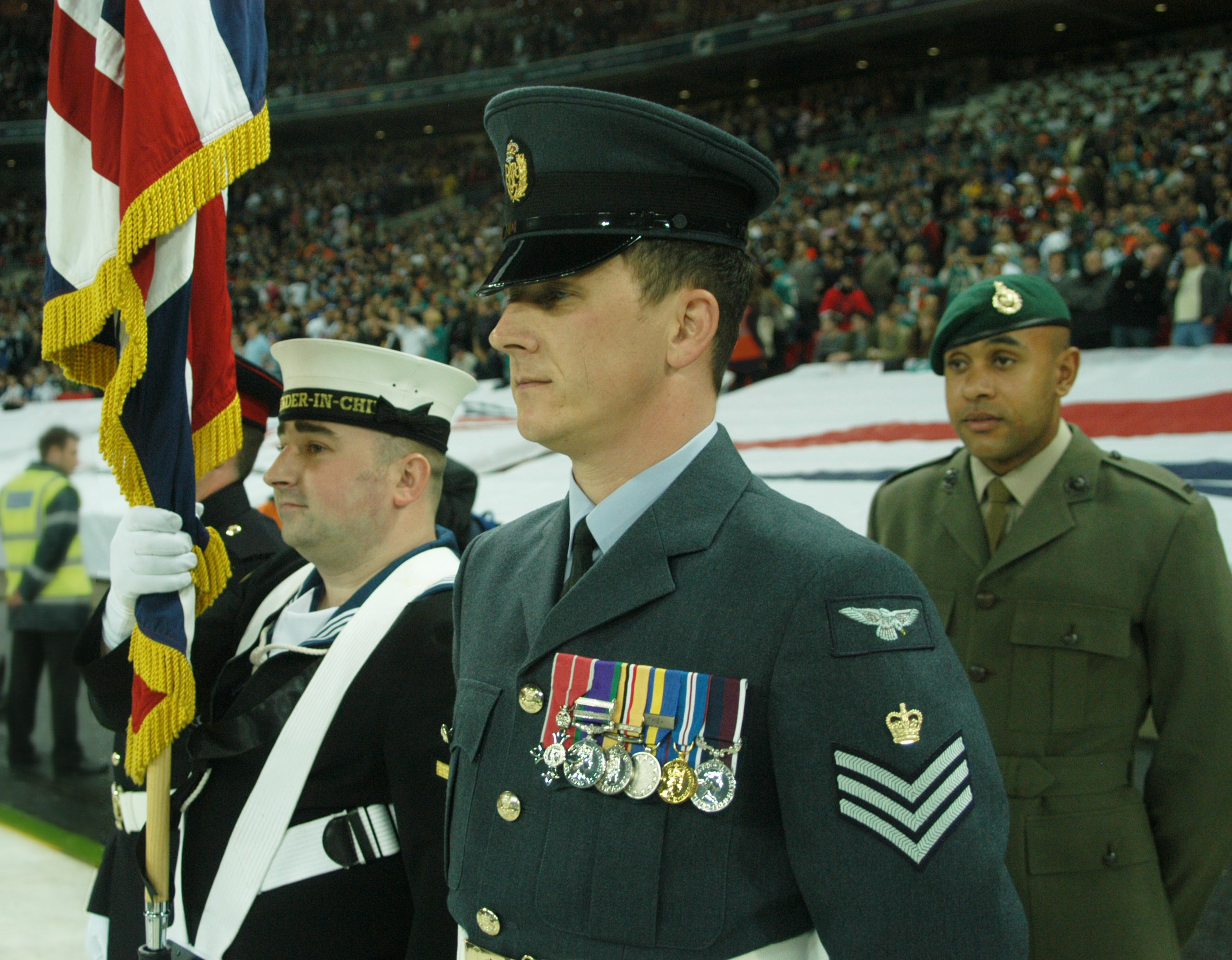 British Armed Forces on parade at Wembley Stadium for the first ever NFL regular season game outside the United States